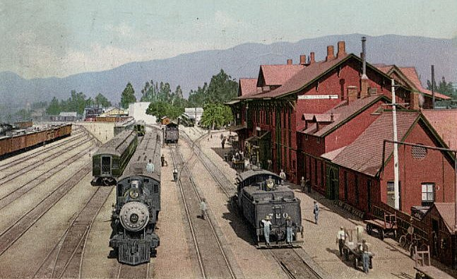 The train station and part of the yards built by the California Southern Railroad in San Bernardino.